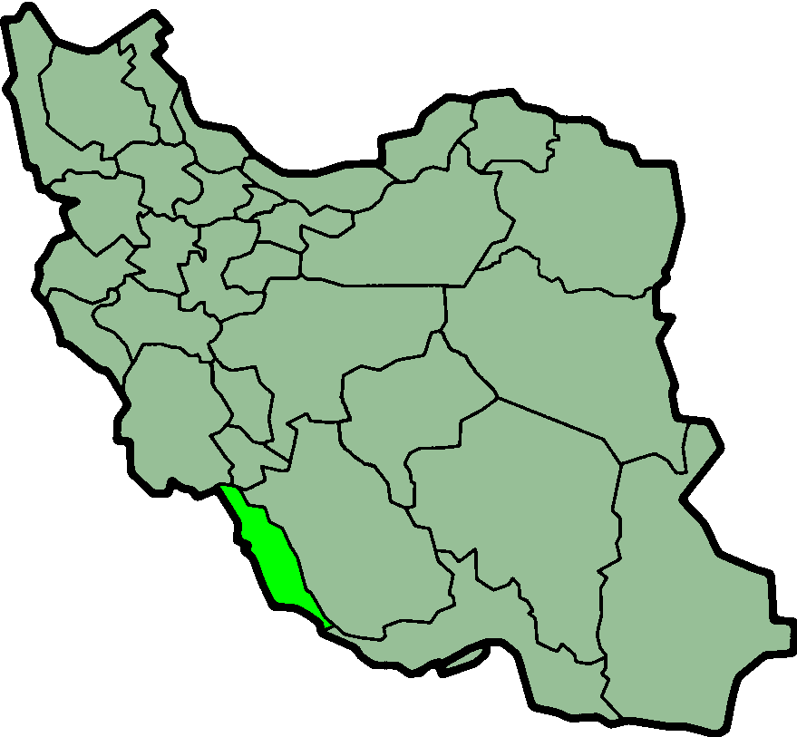 Province of Bushehr, Iran